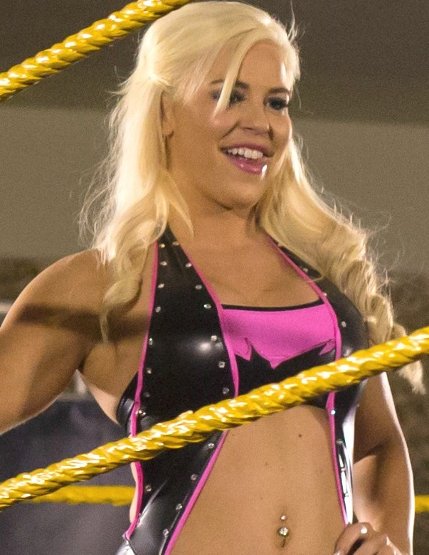 Brooke posing during an WWE live event in December 2014, cropped from the original.